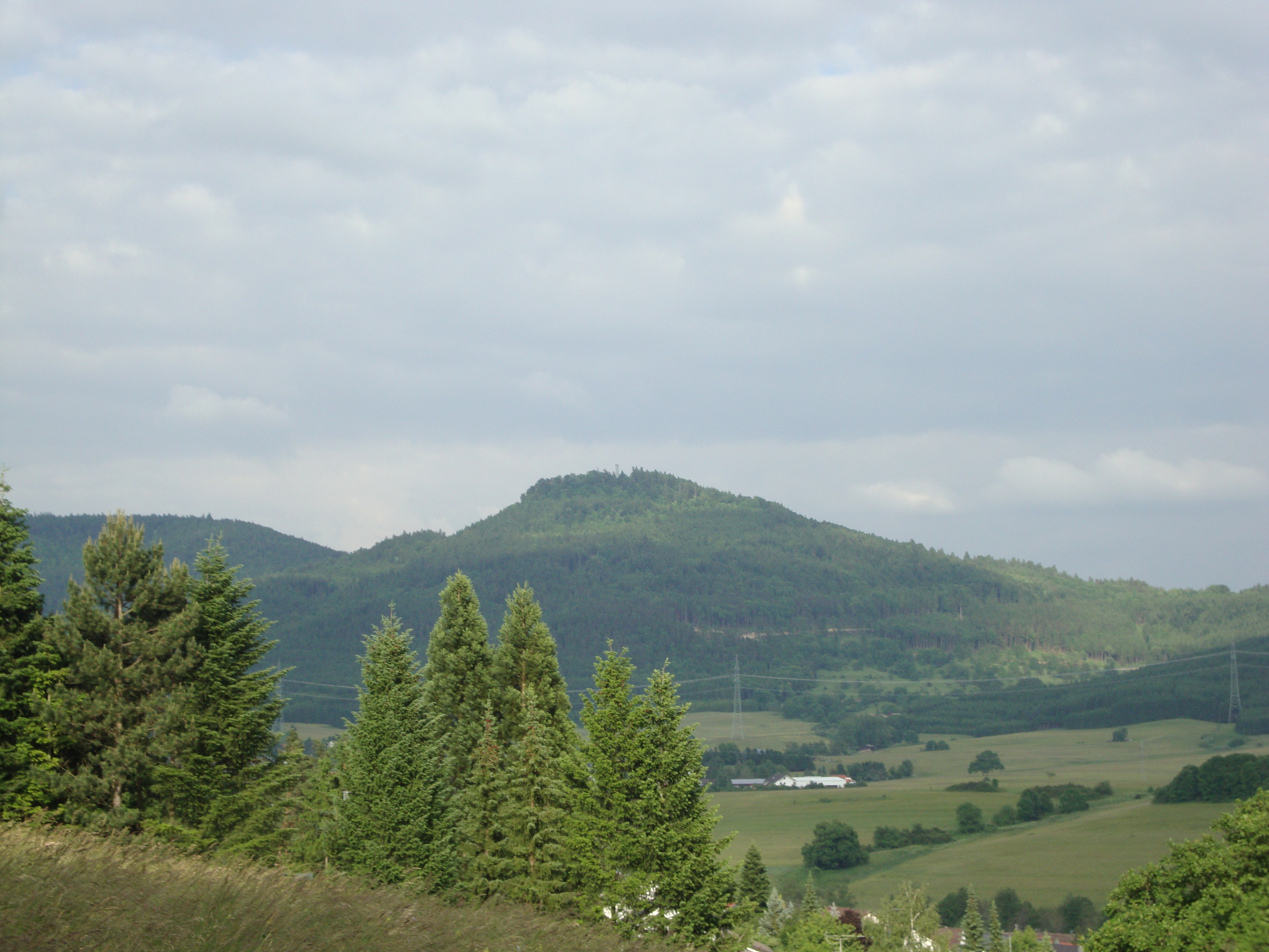 Lemberg seen from Wellendingen - pretty good to see with viewing tower. Lemberg is the highest point of the swabian alb with 1015 m ASL.